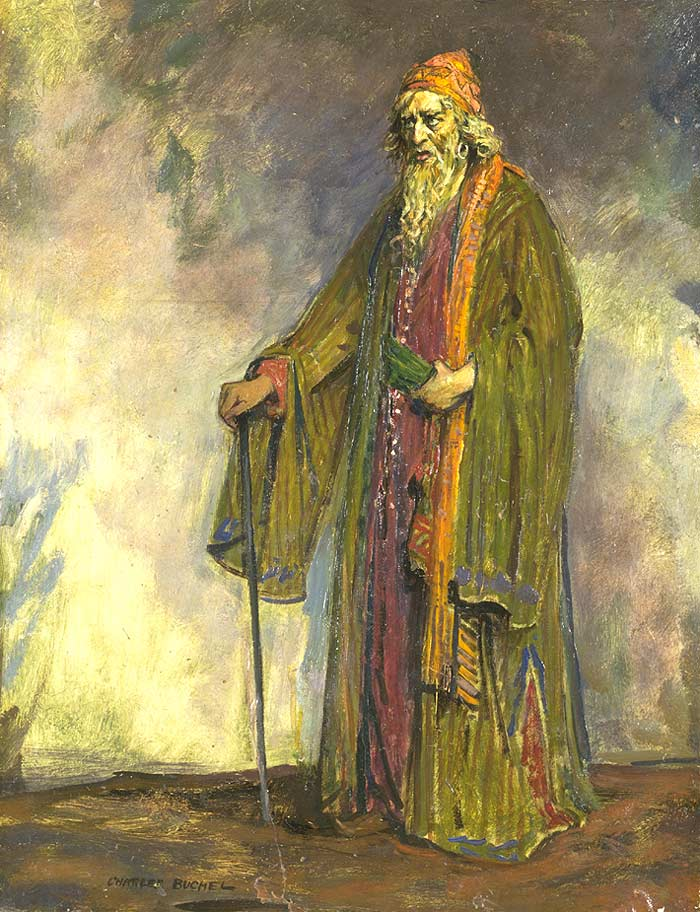 English actor Sir Herbert Beerbohm Tree (1853-1917) as William Shakespeare's Shylock in The Merchant of Venice.